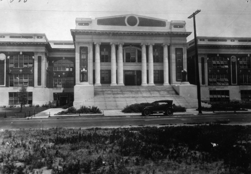 Thomas Jefferson High School (Los Angeles) view from the front in 1920. The picture was taken from current day 41st Street.